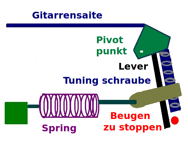 This is a mechanism. It maintains constant tension on a guitar string. It works with a coiled spring and a lever. It is made by a company called "Evertune".